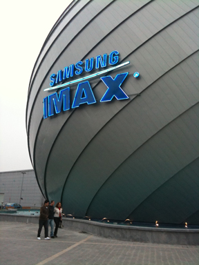 The Samsung IMAX theatre in Bucharest, Romania.